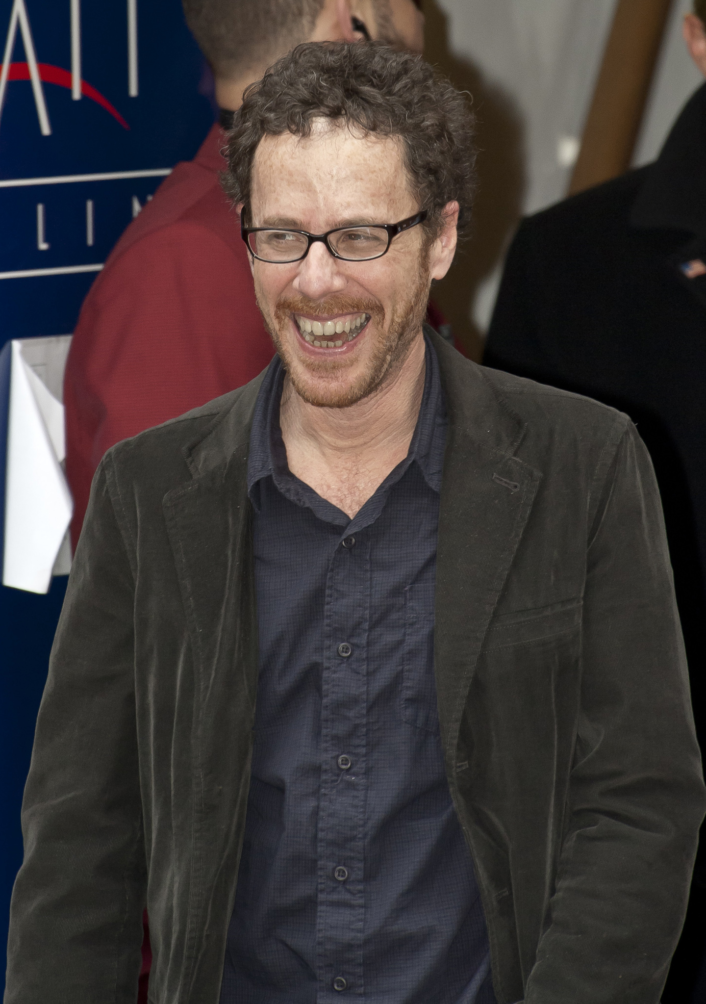 Ethan Coen leaving the press conference of True Grit at the Berlinale 2011